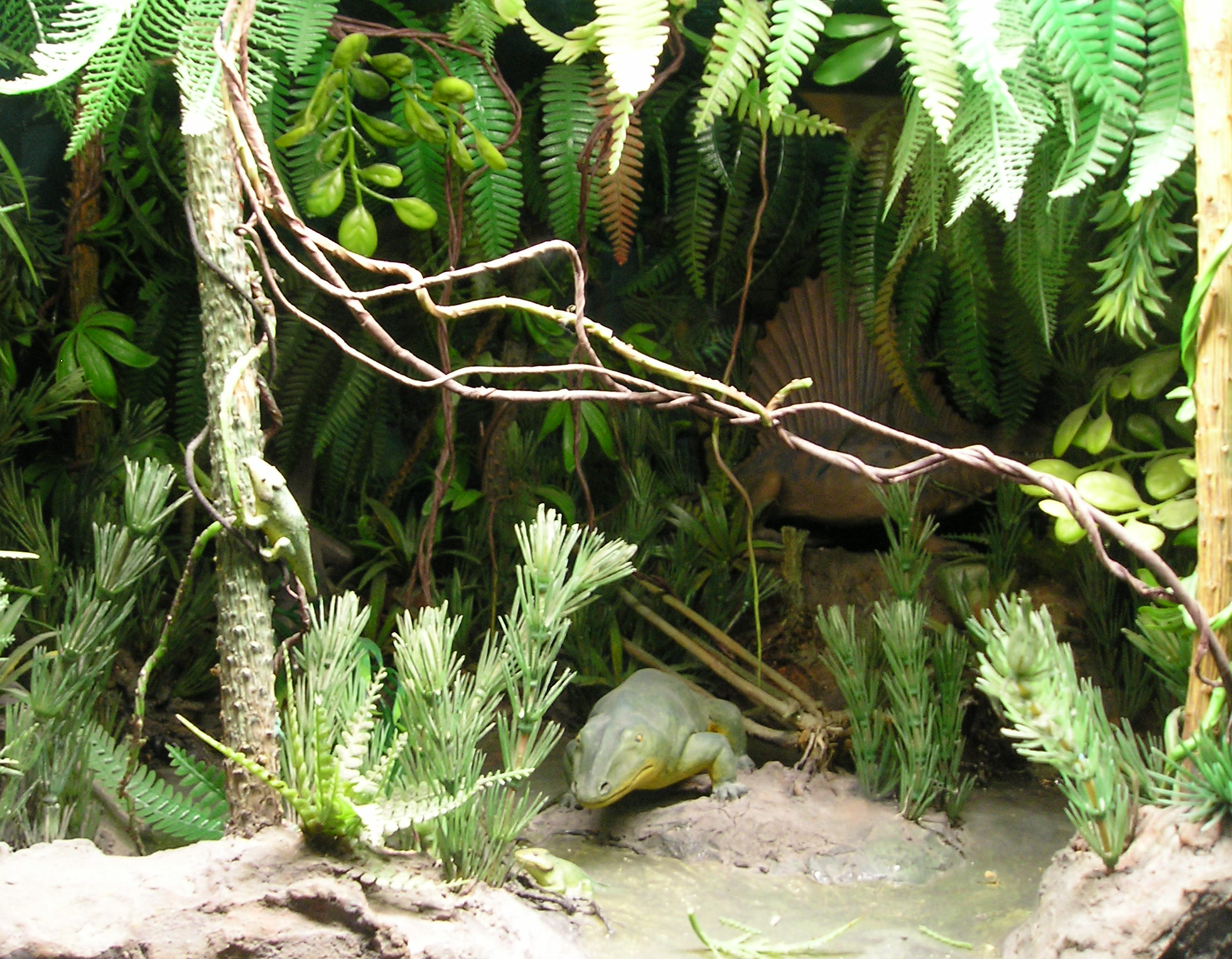 Small Permian diorama from the old dinosaur museum display at the Royal Ontario Museum, Toronto.